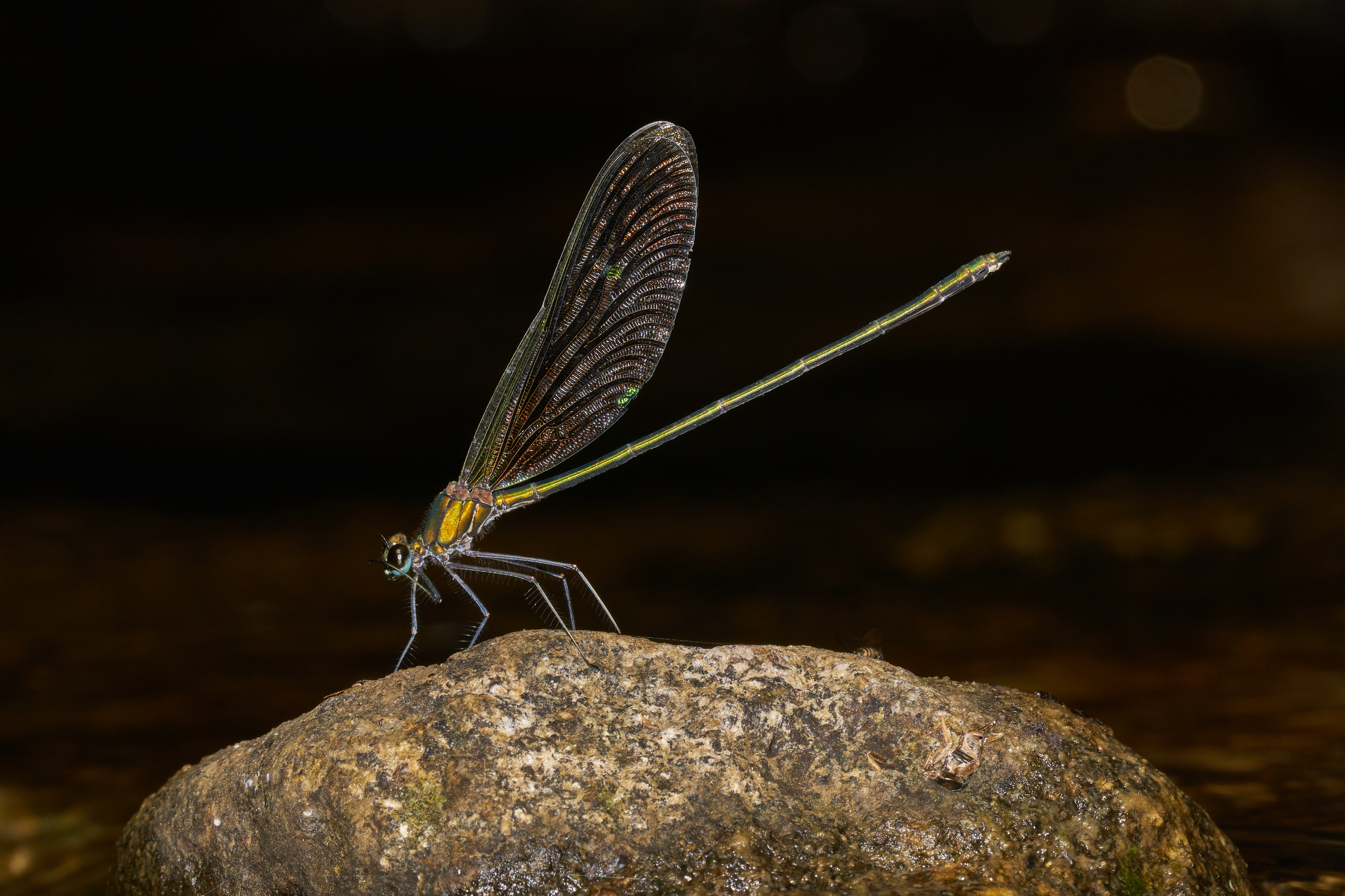 Neurobasis chinensis, Stream Glory, Oriental Greenwing, is a species of damselfly found in tropical Asia. Males have a very iridescent hindwing which is flashed in display to females and maintain their territories along stretches of moderately fast-flowing streams. The hindwing is brown on the underside but bright iridescent green on the upperside. The colour is produced by interference from the thin surfaces of the wing membrane. Breeds in forested and partially forested streams.